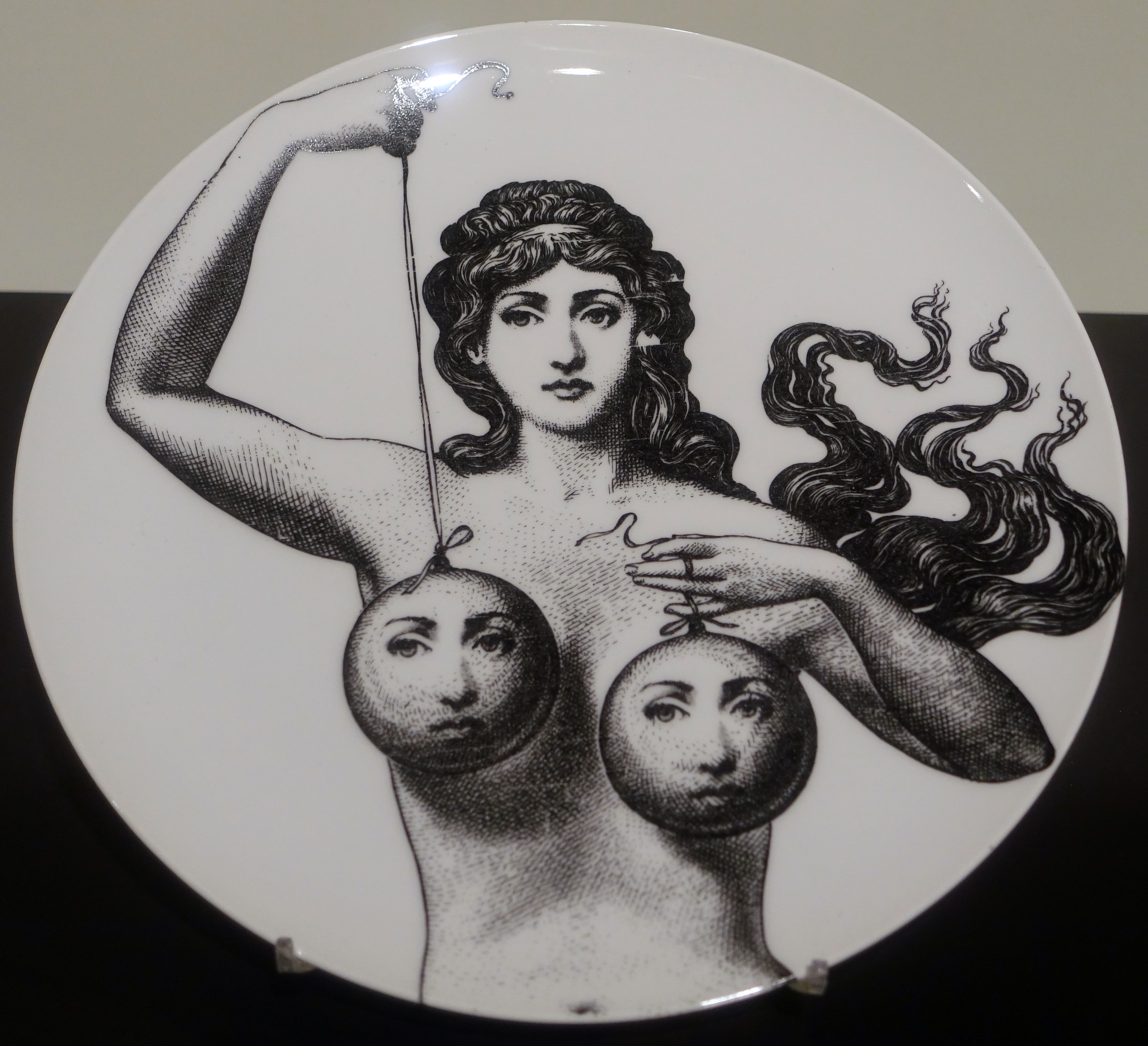 Exhibit in the Montreal Museum of Fine Arts - Montreal, Quebec, Canada. The design of this object is not eligible for trademark protection. Rather it might have been eligible for Industrial Design protection, but if so, that protection has expired; see Industrial design right for more information. Hence if the design was ever protected, its design protection has now expired.